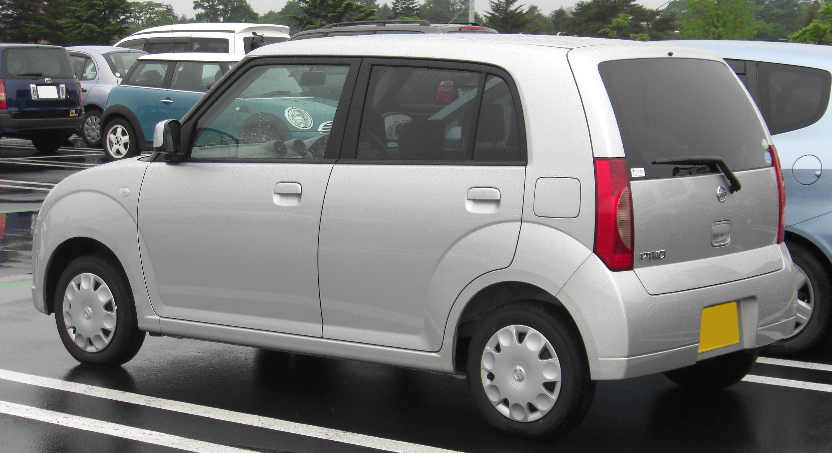 NISSAN PINO